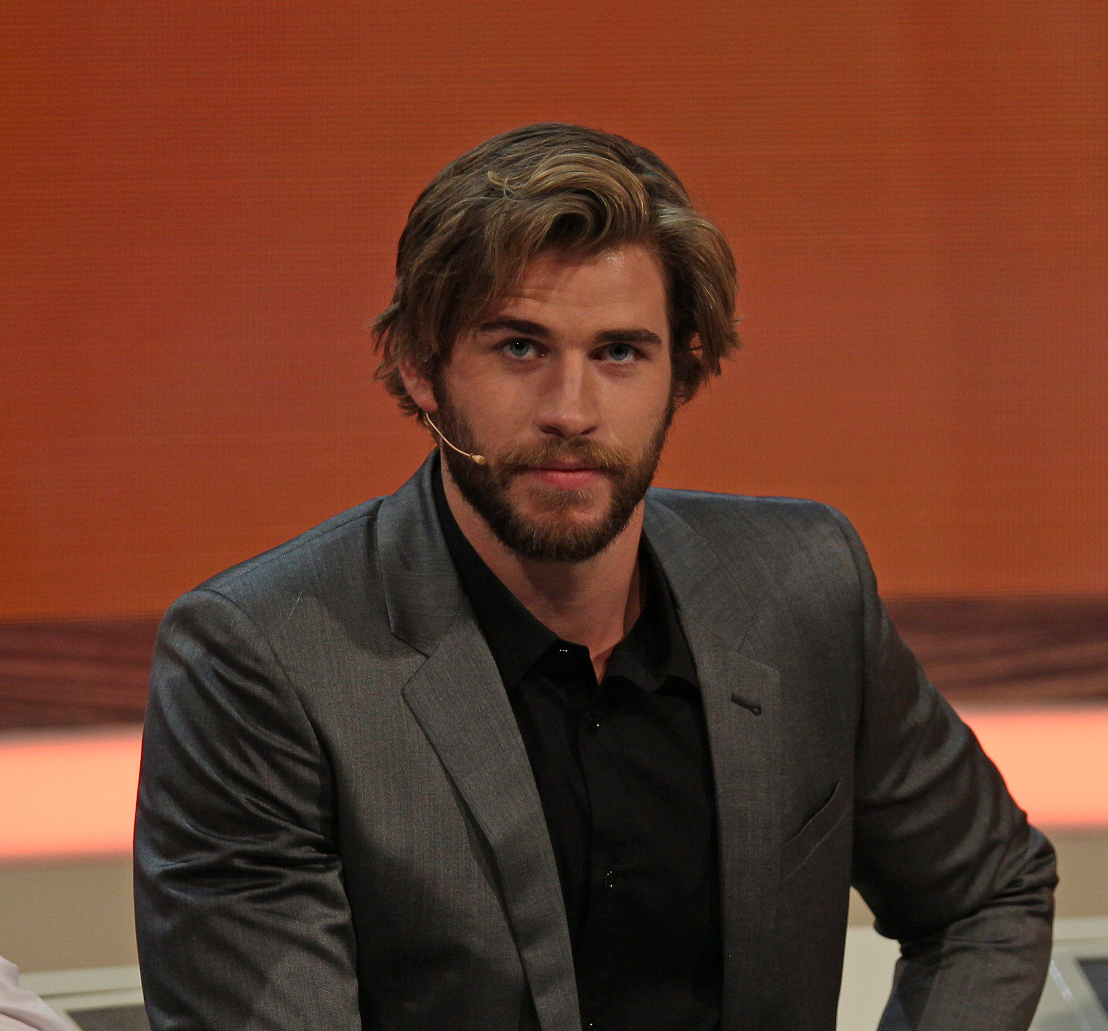 Wetten, dass.. ? 214. show in Graz, 8. Nov. 2014 Liam Hemsworth at 214. Wetten, dass.. ? show in Graz, 8. Nov. 2014